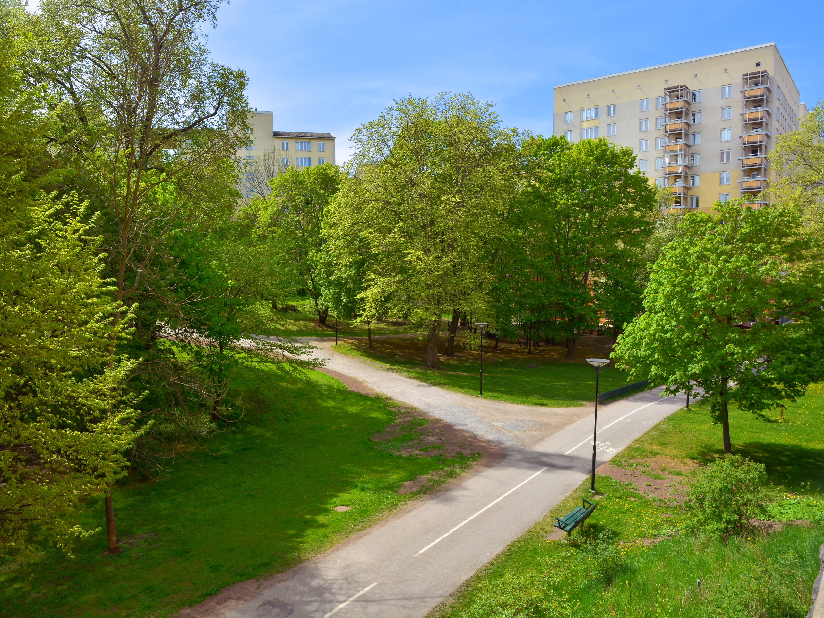 Ånghästparken (Steam horse park) on Södermalm in Stockholm, Sweden.